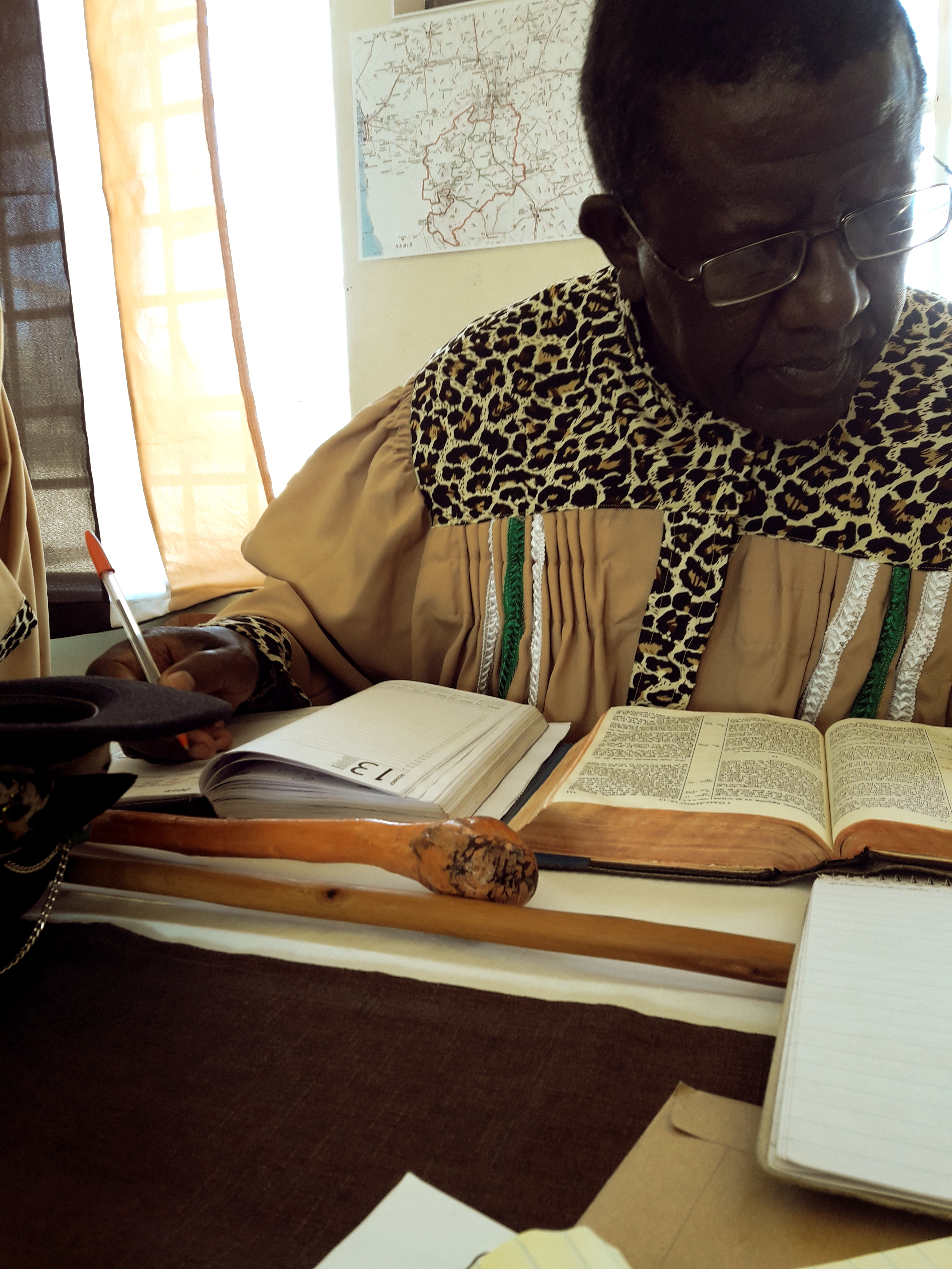 Chief H. Eichab taking some notes at the Closing Tri-annual Sitting of the ǃAinîn Traditional Community at Klein Aub-Hardap Region in the heart of ǃAib (ancestral territory of the Damaras of ǃAb [the ǃAinîn])